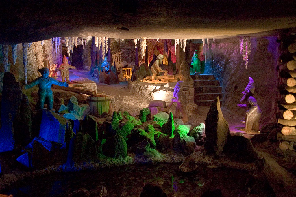 The Kunegunda Shaft Bottom in the Wieliczka Salt Mine.